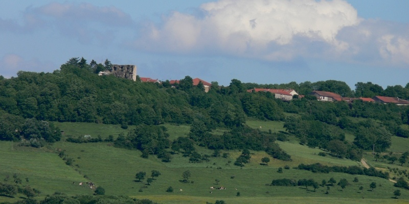 Landscape of Vaudémont, Lorraine, France